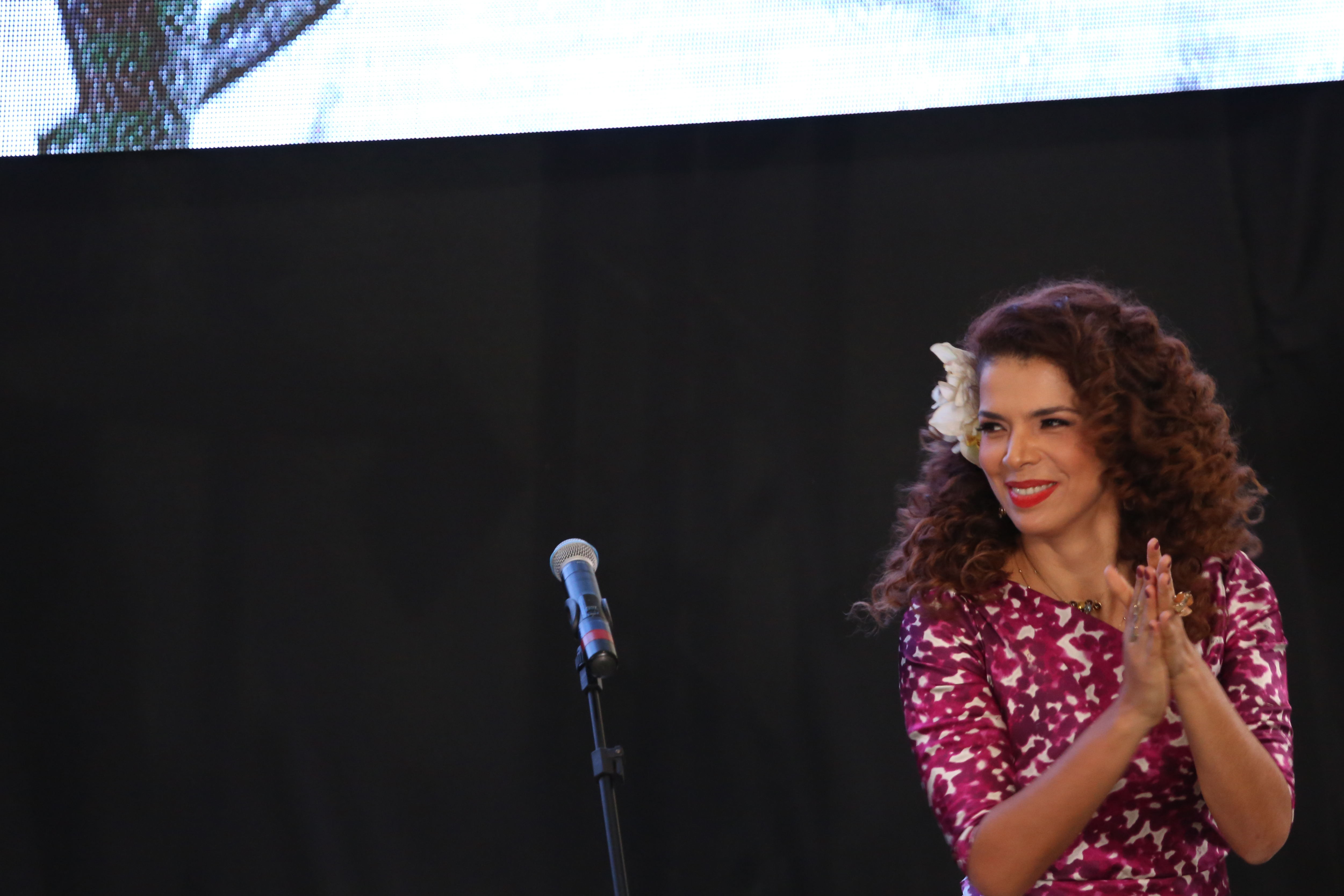 A cantora Vanessa da Mata, na entrega da Ordem do Mérito Cultural em 2014